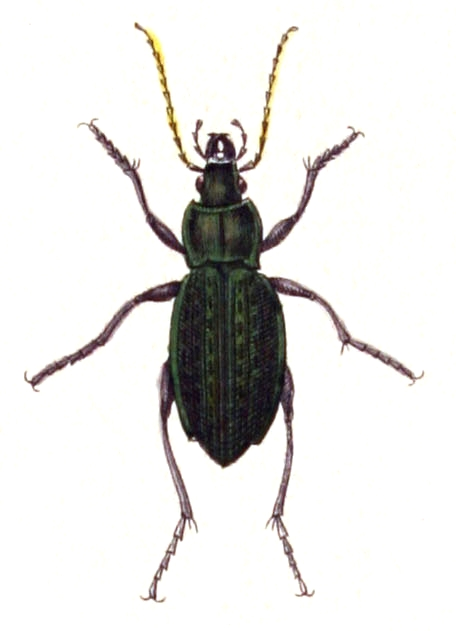 Carabus cancellatus, from Calwer's Käferbuch, Table 3, Picture 2. Taxonomy was updated to 2008, using mostly the sites Fauna Europaea and BioLib. Please contact Sarefo if the determination is wrong!